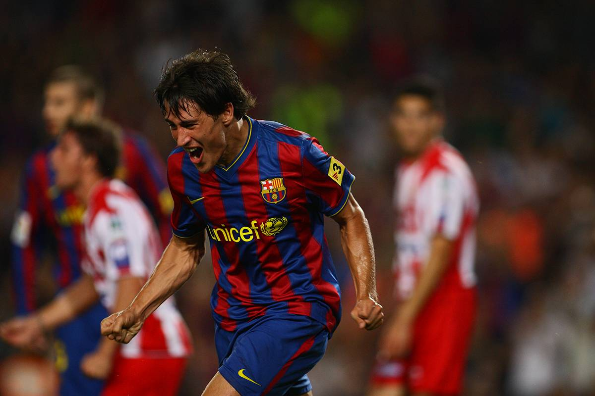 AUGUST 31, 2009 - Football : Bojan Krkic of FC Barcelona celebrates his goal during the Liga match between FC Barcelona and Sporting Gijon at Camp Nou stadium on August 31 in Barcelona, Spain. (Photo by Tsutomu Takasu)